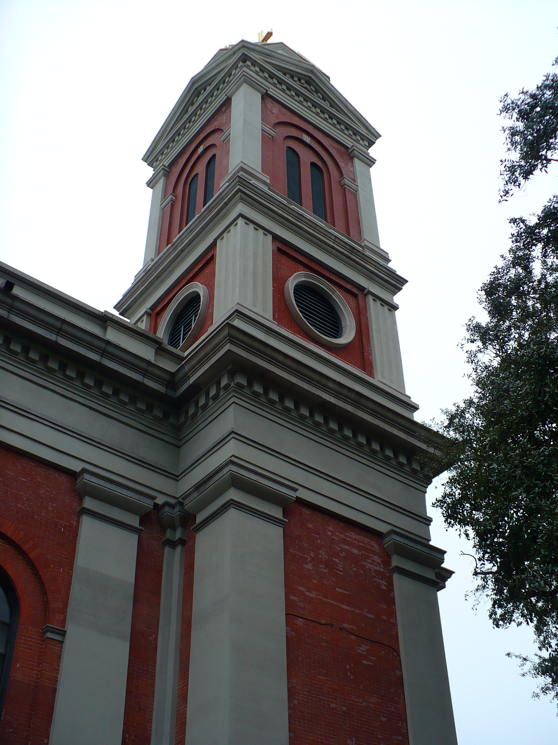 Cathedral-Basilica of Immaculate Conception in Mobile, Alabama.